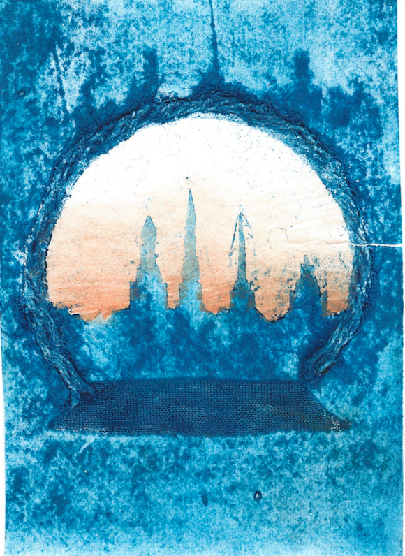 Daina Skadmane - Christmas Skyline, graphic art work - copy